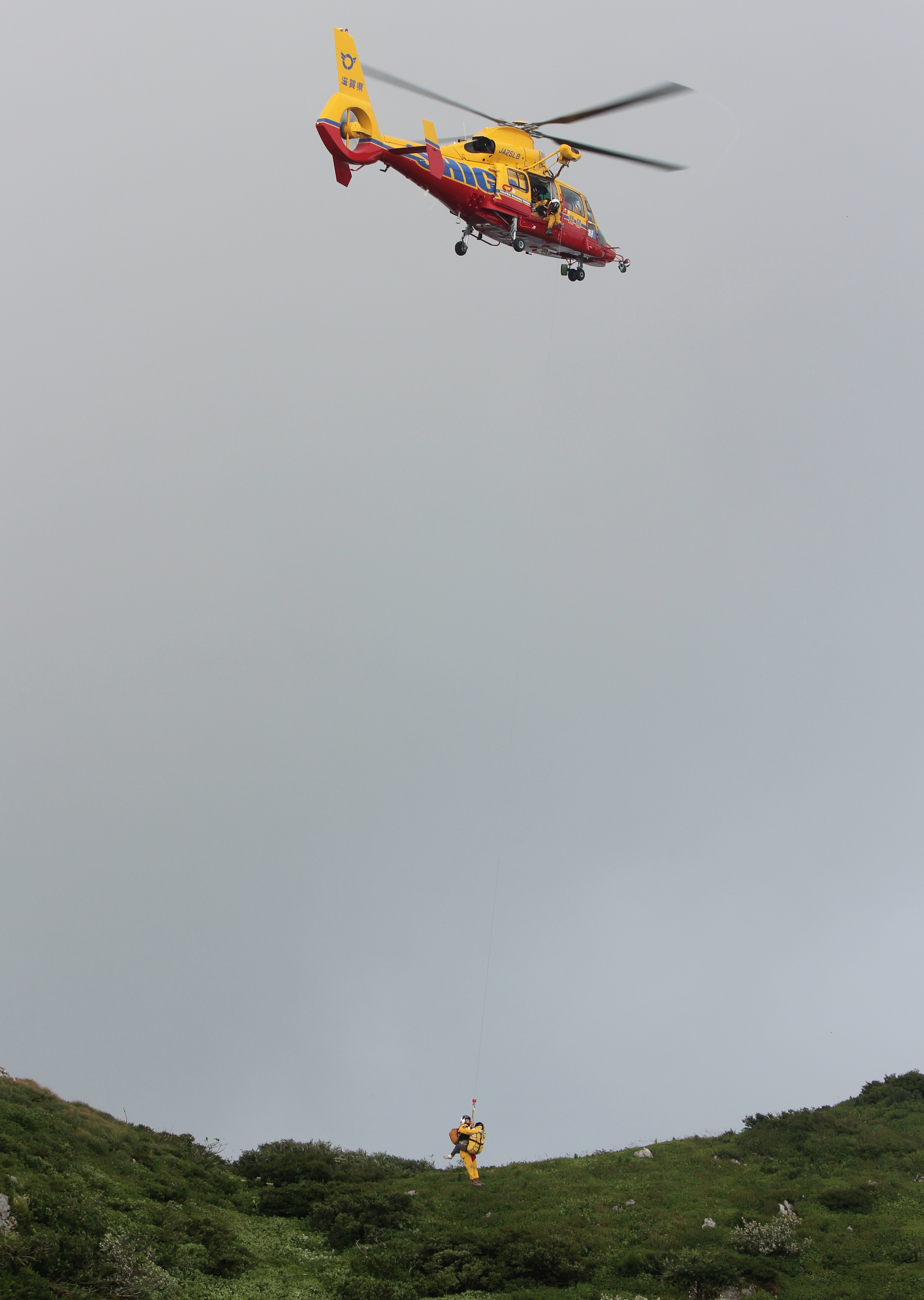 Rescue in Mount Ibuki